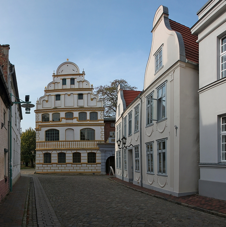 Güstrow: this image shows the cathedral school (built 1575/79), the oldest preserved school-building in Mecklenburg.